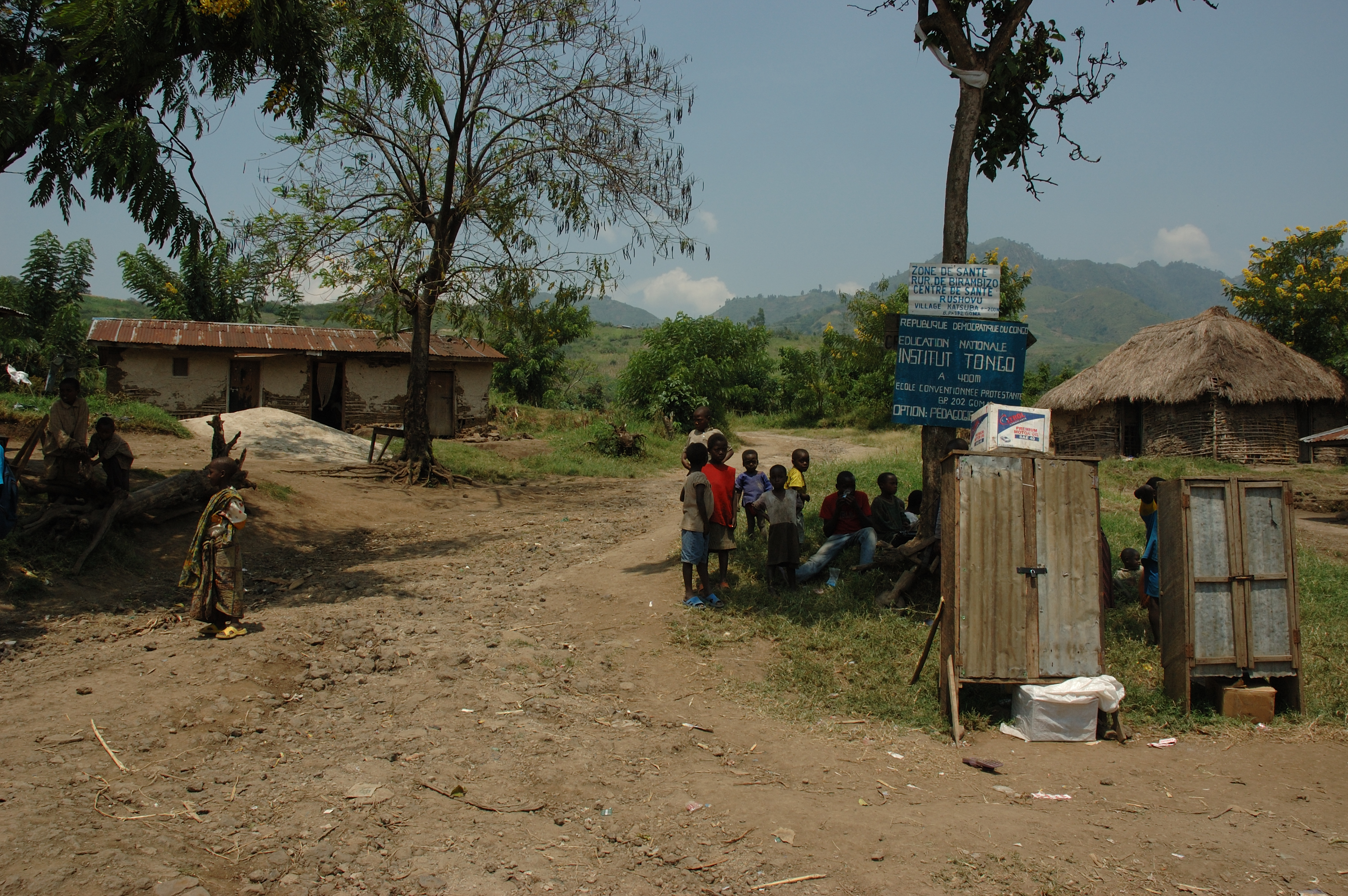 In the territory of Rutshuru is made up of three villages; Rushevo, Rushege and Katsuba. It has primary and secondary schools and about a couple of heath centres. On November 14th fighting started between rebels of Laurent Nakunda’s 83rd Brigade and the 9th Brigade of the national army. The rebels stayed above the main village in Rushege and the government troops were in the main village of Rushevo. The villagers described the Nkunda’s troops as being the better disciplined towards the civilian population. The people fled to Kalingera to avoid the fighting. Since January they have been slowly returning, the majority have now returned although there are still two and a half thousand displaced still in Kalingera. They returned to find the secondary school, main health centre and many houses looted.